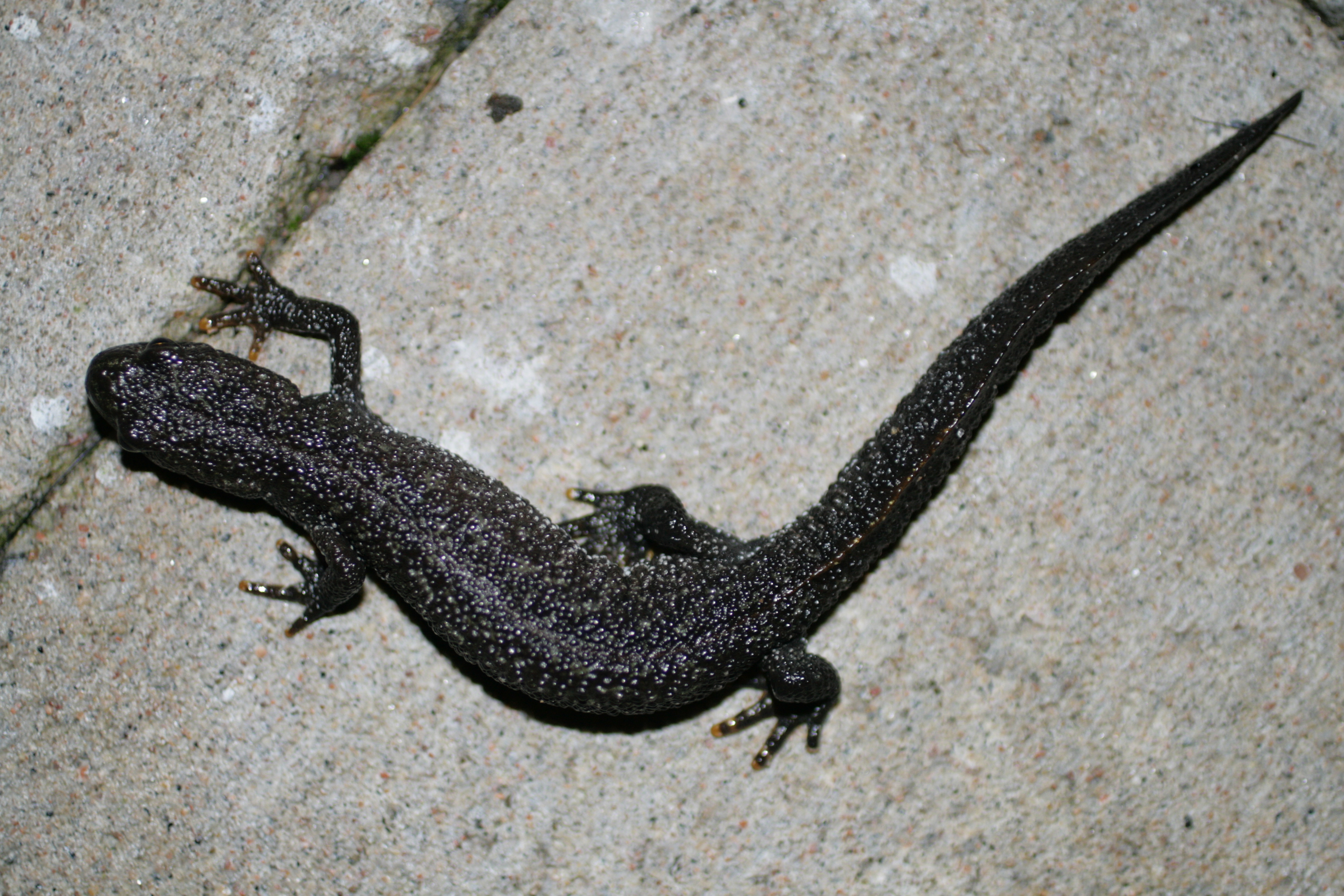 Triturus cristatus seen in Sinarp, Skåne, Sweden.